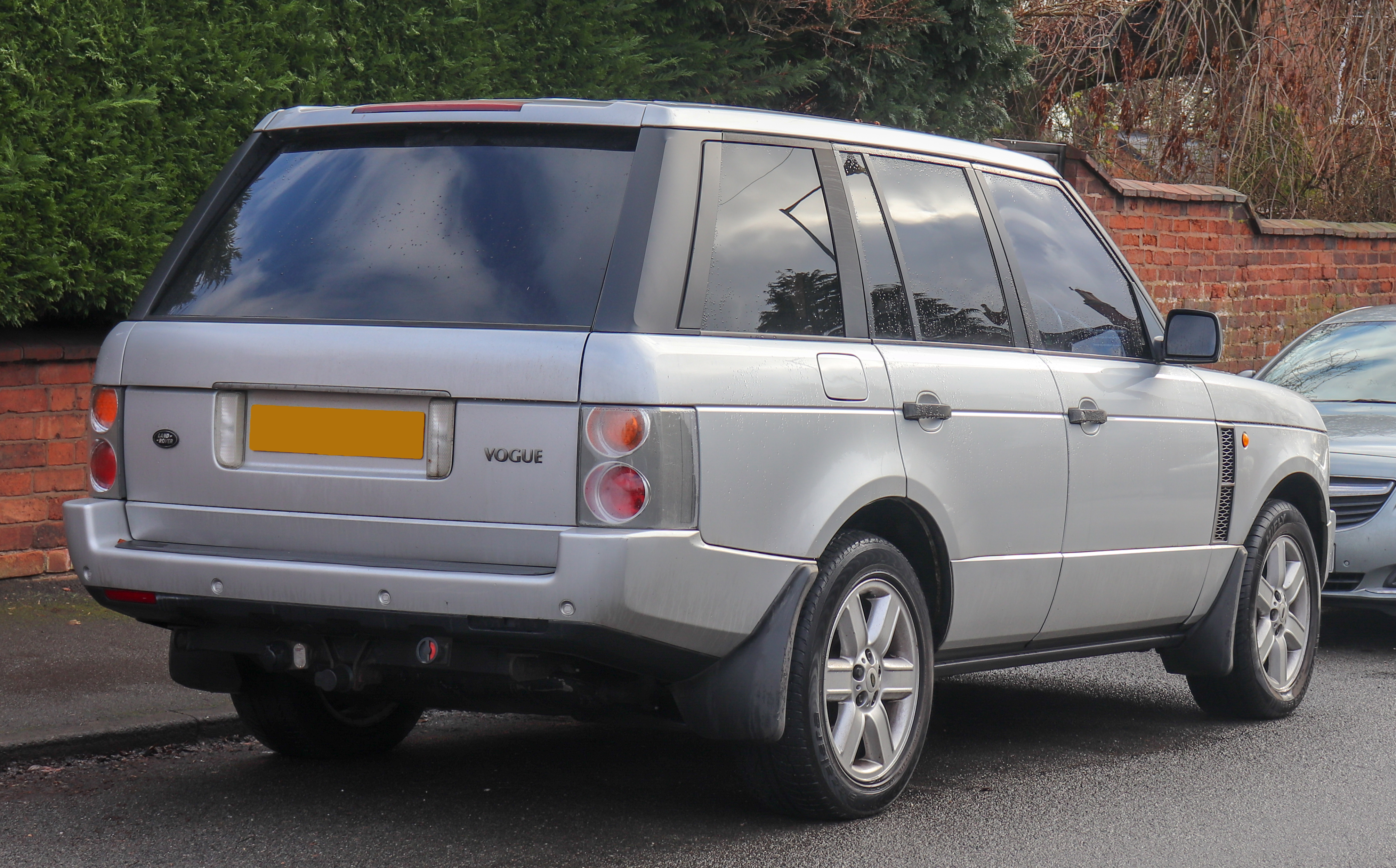 2002 Land Rover Range Rover Vogue V8 Automatic 4.4 Rear Taken in Leamington Spa